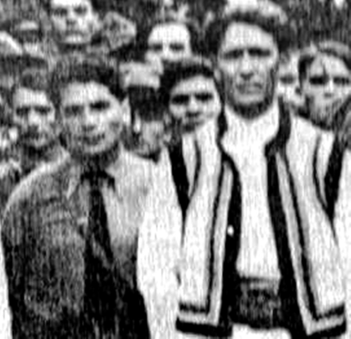 Romanian fascist Corneliu Zelea Codreanu (on the right, in folk costume) with adherents of his Iron Guard movement, at the building site of Casa Verde (the Guard's official lair). Standing next to him is Mihai Stelescu, presumably wearing the paramilitary suit: green shirt, black tie. The next year, Stelescu and Codreanu would split over ideological issues; Stelescu was ultimately murdered by the Guard in 1936. The context and the personages are identifiable from another photograph in the Historia series, marked: "zelea codreanu pe santierul de la casa verde etc..